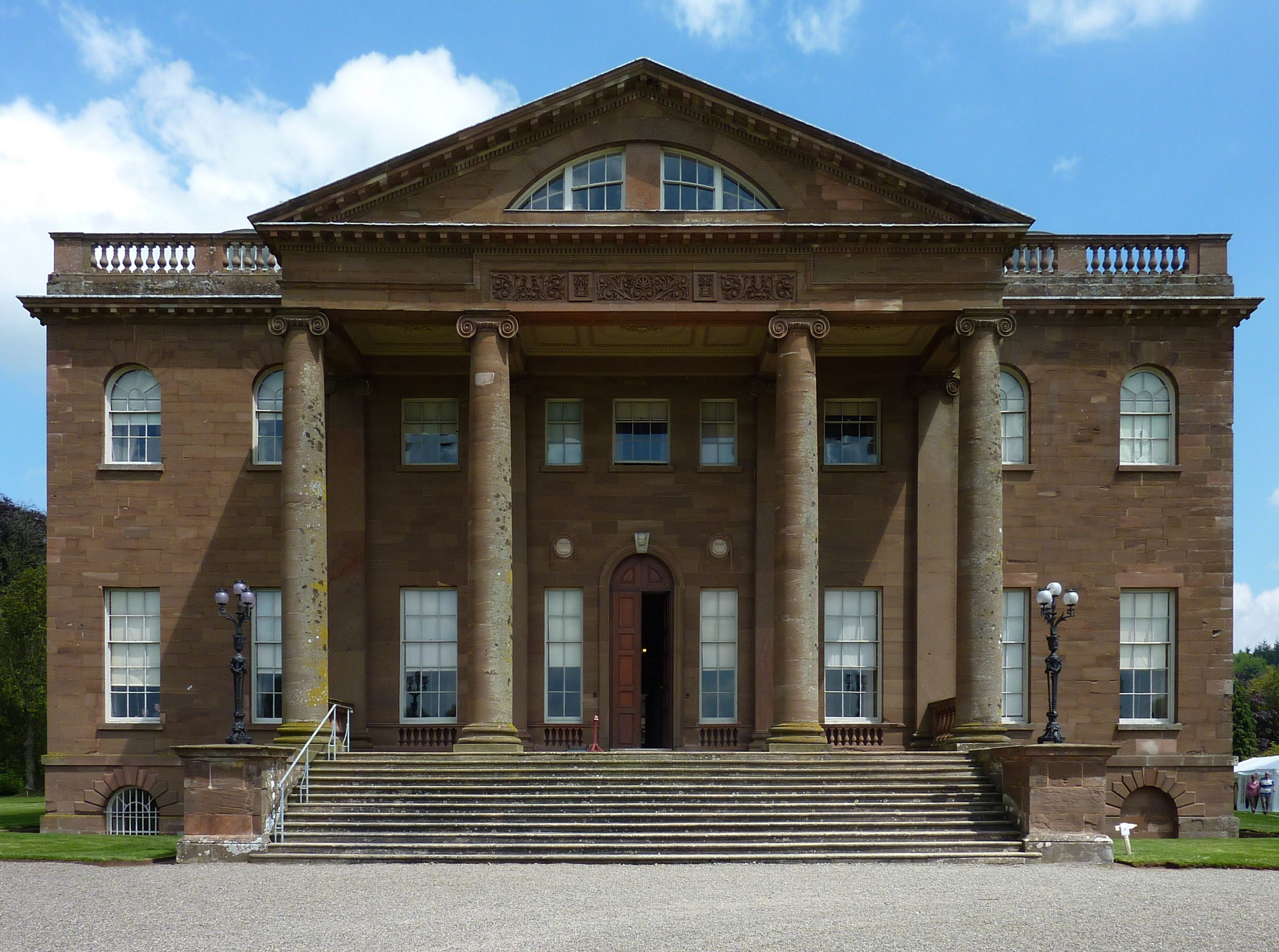 West front, Berrington Hall, Herefordshire